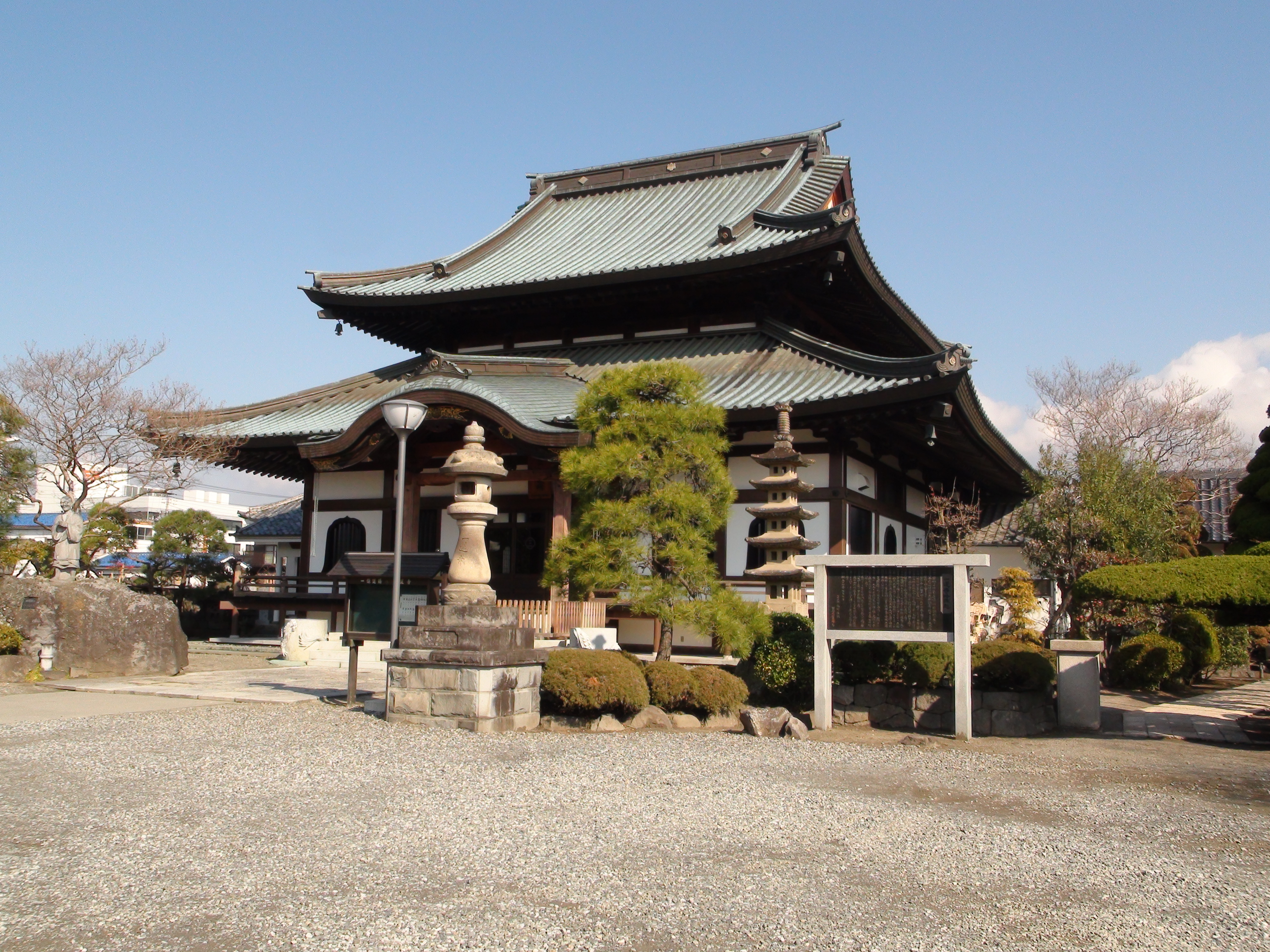 Ichiren-ji Temple Kofu-City